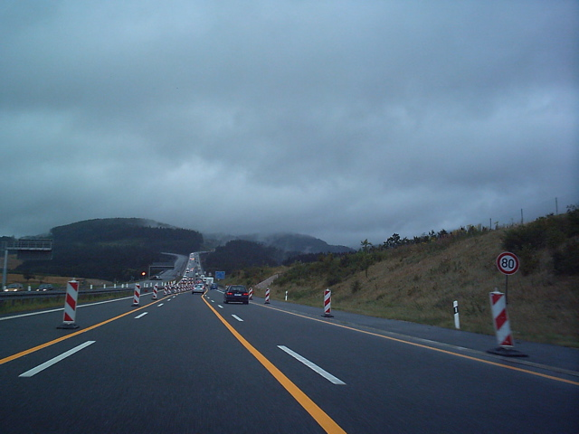 Roadworks - A9 Autobahn, Germany. Nearby the exit Schnaittach (no. 48), view towards the hill Hienberg.